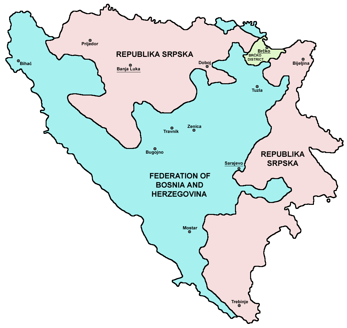 Federation of Bosnia and Herzegovina, Republika Srpska and Brčko district.Srpskohrvatski / српскохрватски: Federacija Bosne i Hercegovine, Republika Srpska i Distrikt Brčko / Федерација Босне и Херцеговине, Република Српска и Дистрикт Брчко.